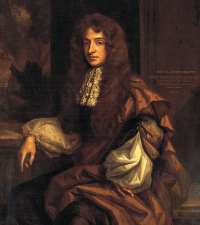 Portrait of James Grahme (1649–1730), English politician.